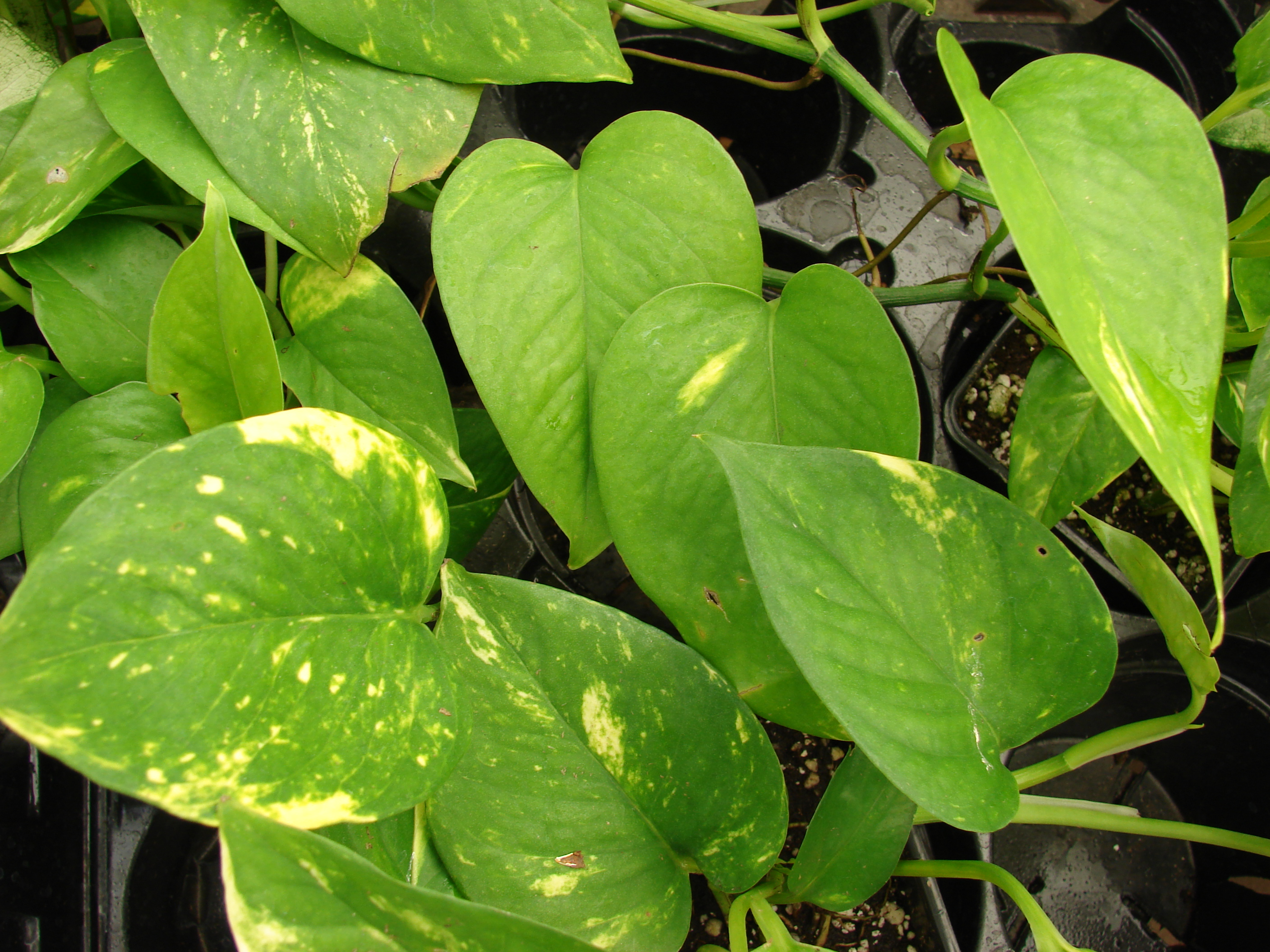 Epipremnum pinnatum (Golden pothos) Leaves at Walmart Kahului, Maui, Hawaii. January 17, 2008 #080117-1726 Image Use Policy Also known as Epipremnum aureum.